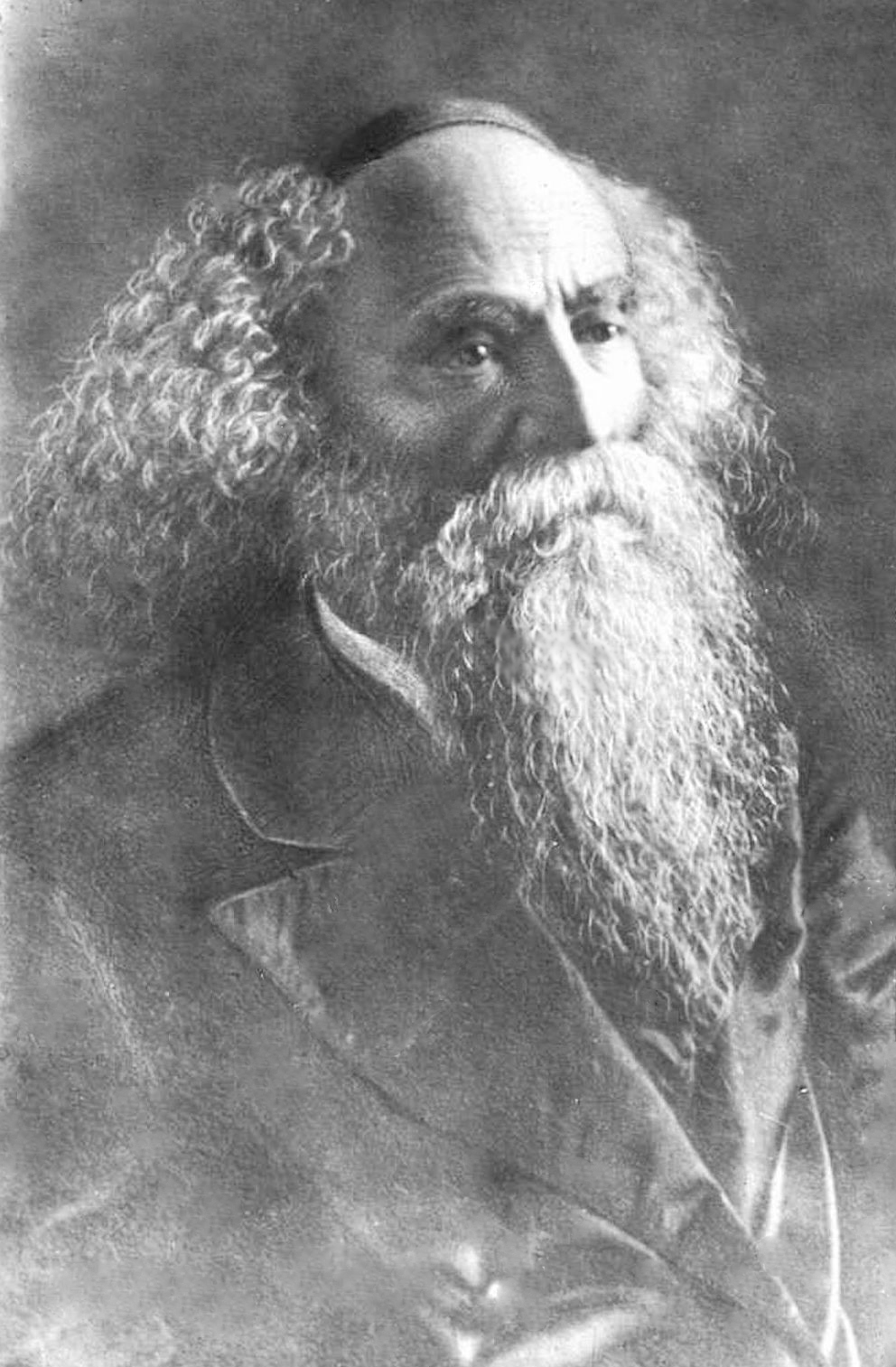 Yosef Rozin, Chief Rabbi of Dvinsk, known as the Rogatchover Gaon.